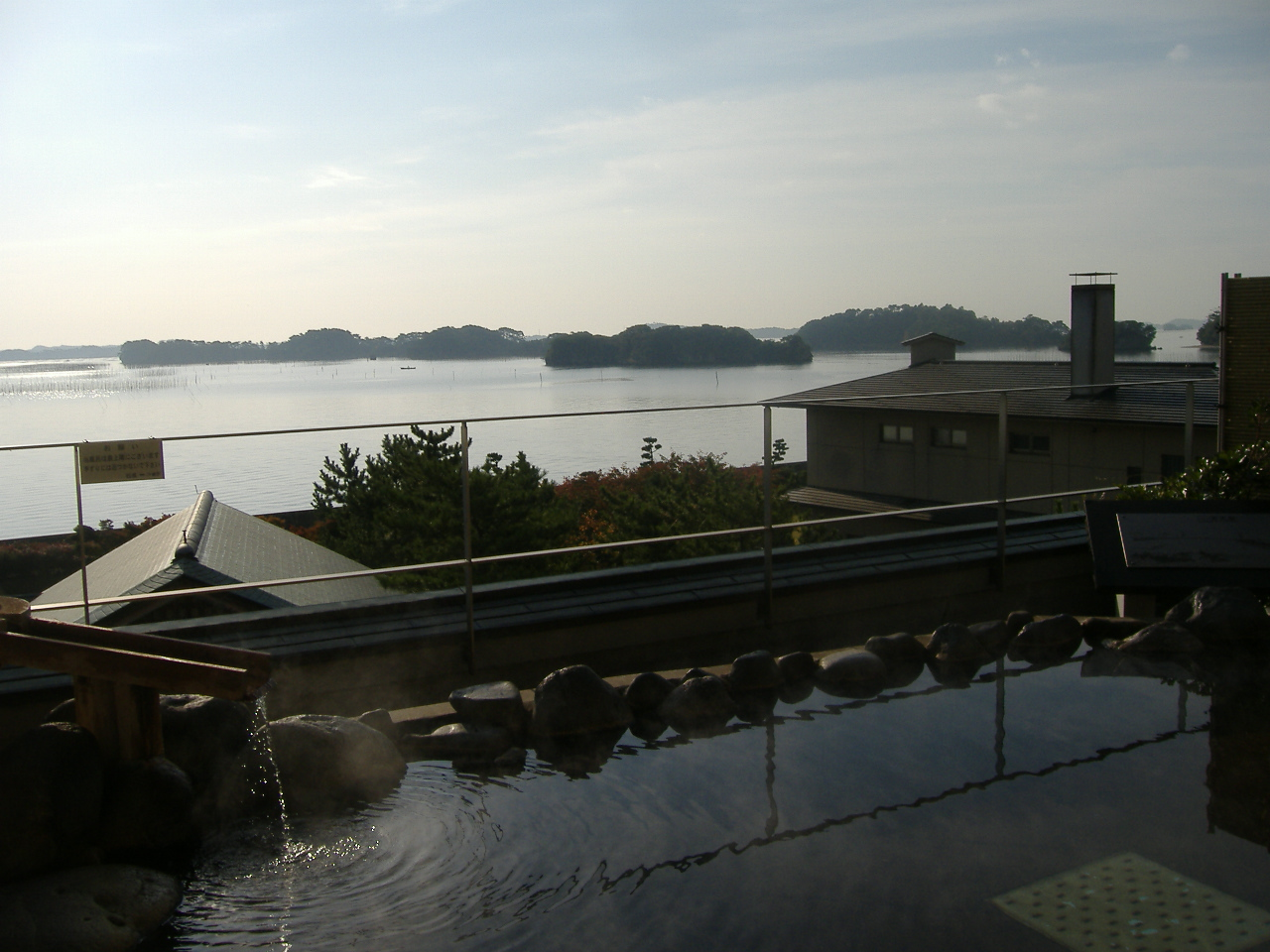 Matsushima Onsen "ICHINOBŌ" Outdoor-bath